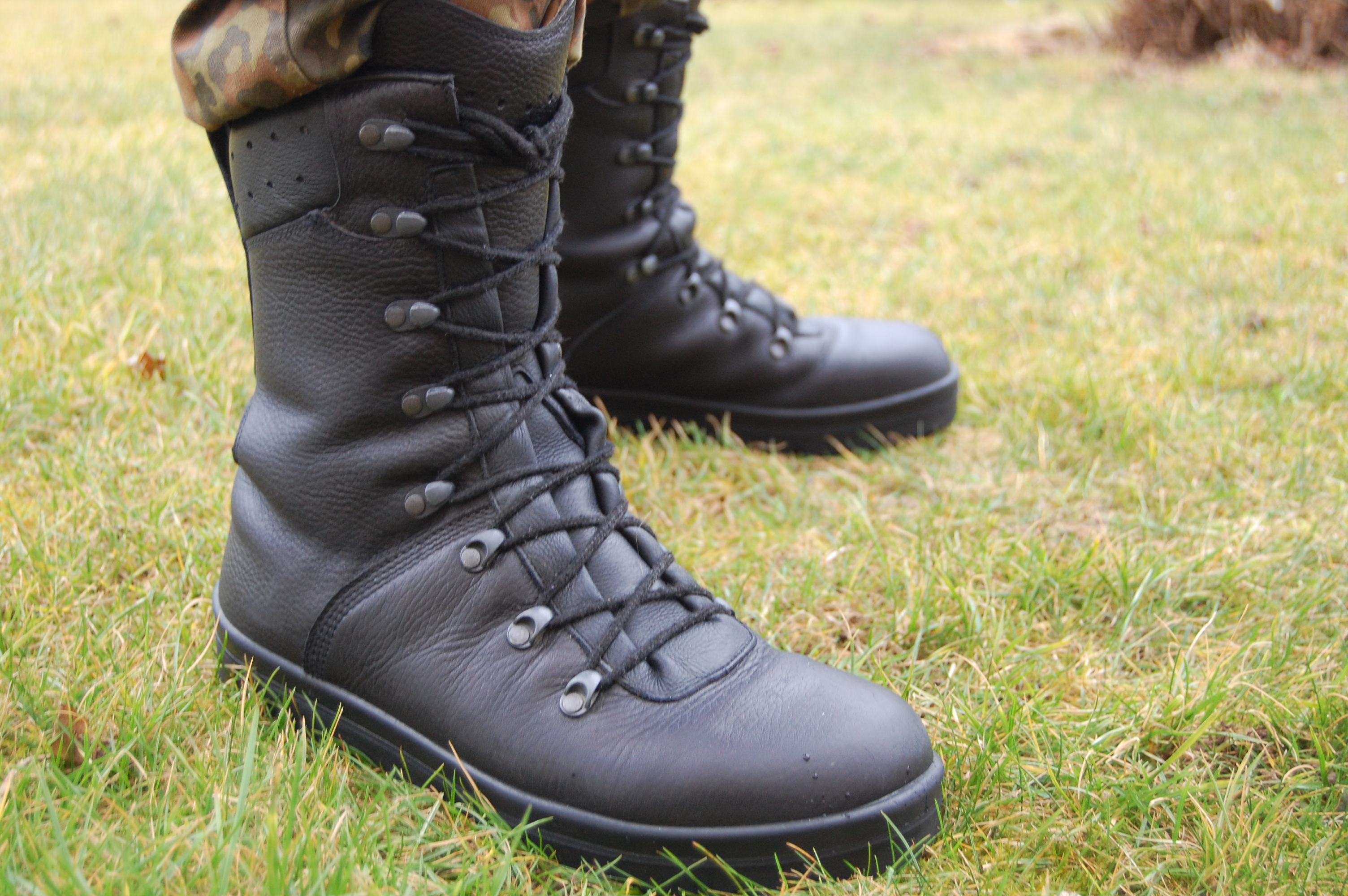 Model 2007 DMS, received in Octobre 2010, have been in service until March 2011 along with another pair. Current default boot of the German Army.